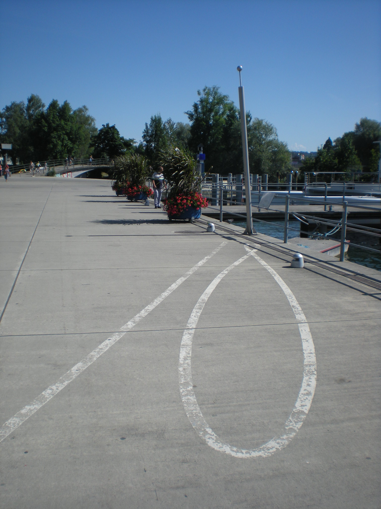 Drawing of an analemma in Biel (Switzerland)